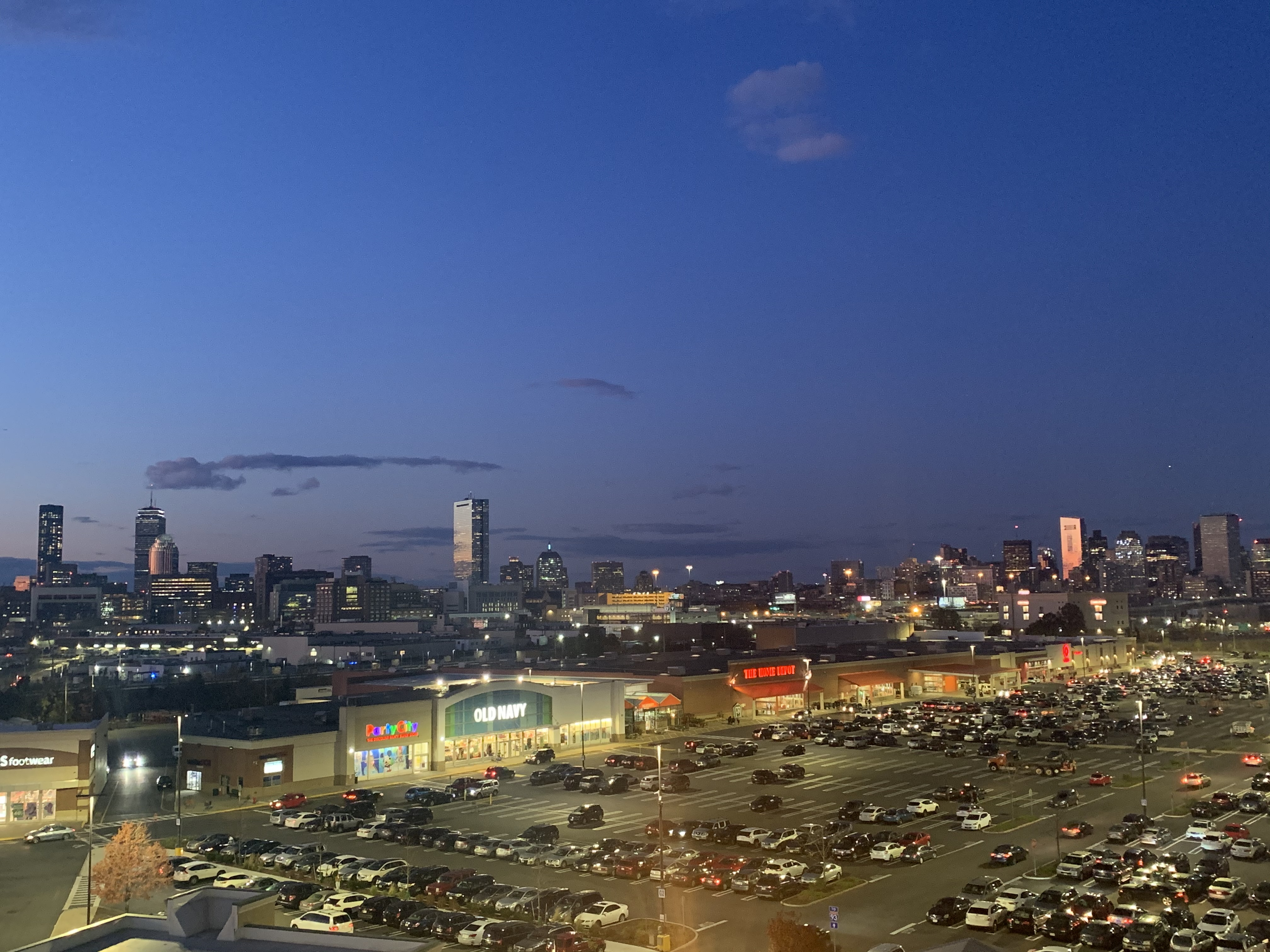 Photograph of South Bay Center at sunset, taken from the top of the parking garage of South Bay Center. Located in Dorchester, Boston, Massachusetts, USA.